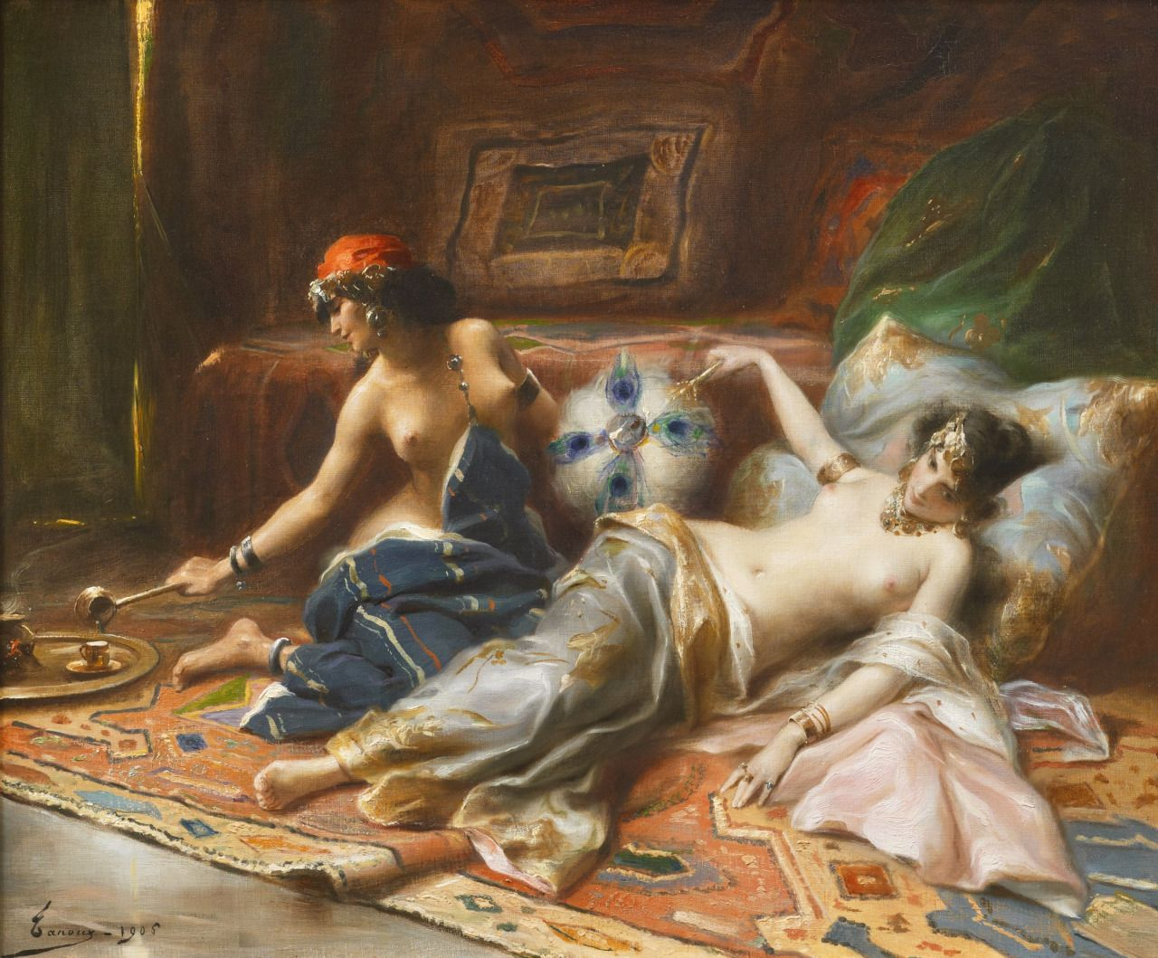 Odalisques by Henri Adrien Tanoux, 1905